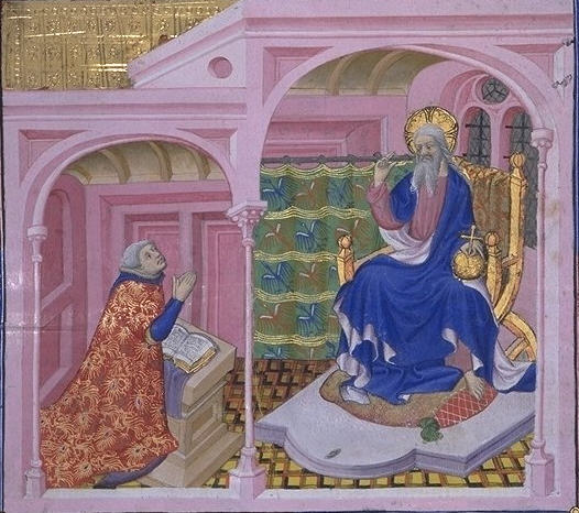 Gaston Phoebus at prayer